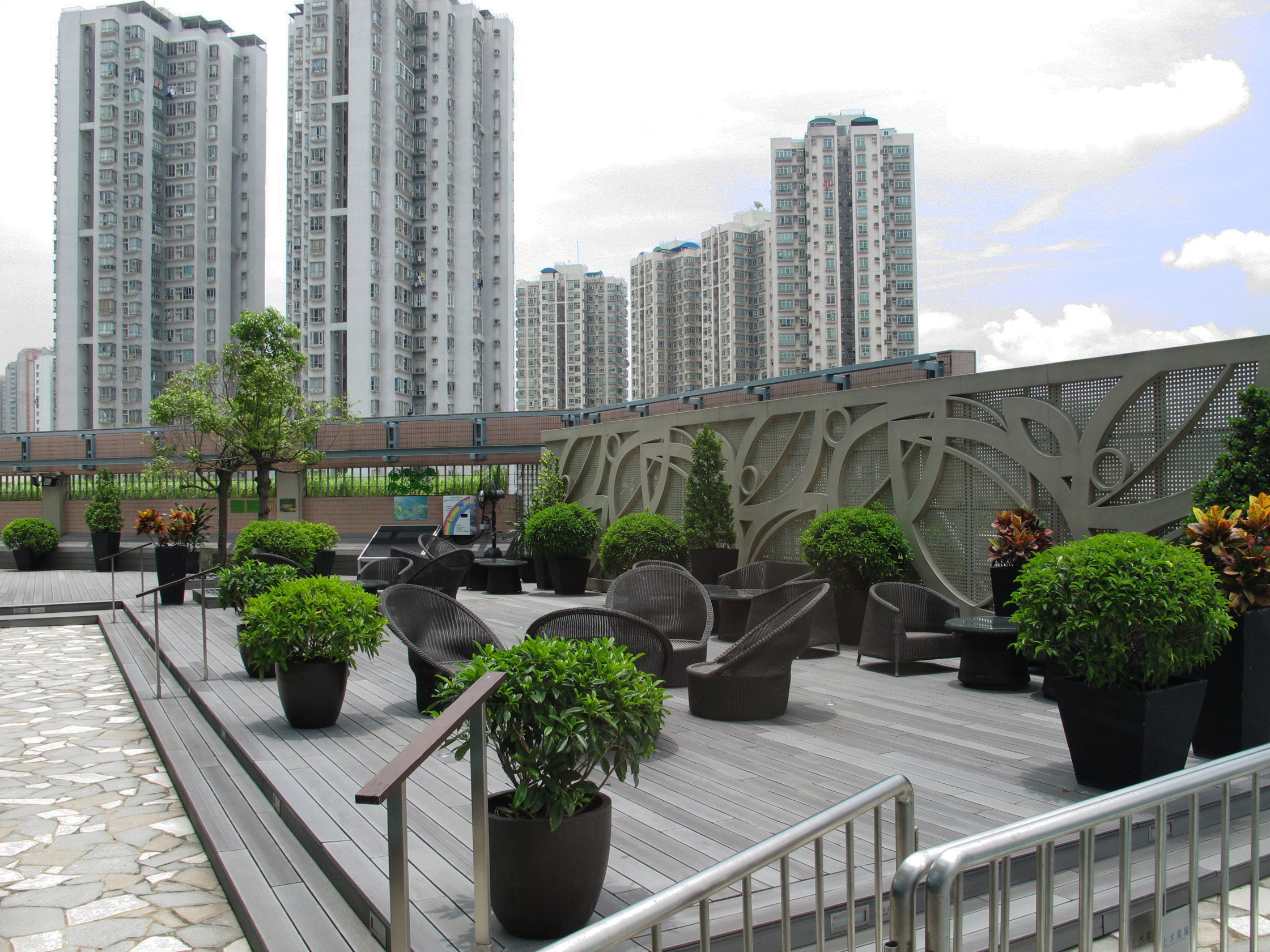 Landmark North L1 corridor